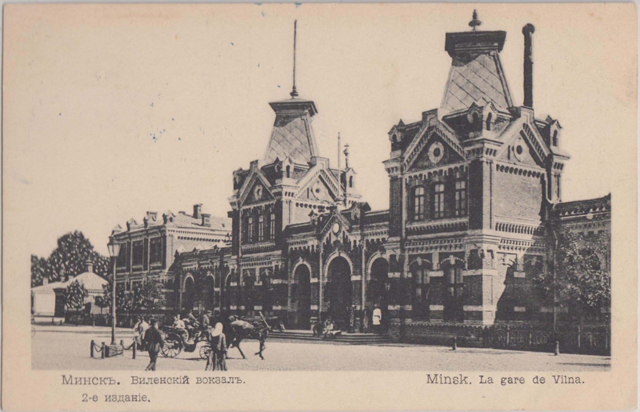 Vilensky (Libavo-Romensky) railway station in Minsk (now Minsk, Belarus). Built in 1871-1874. Now there is a station Minsk-Passazhirsky there.